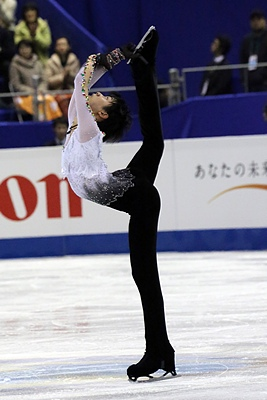 Yuzuru Hanyu at the Grand Prix Final 2013